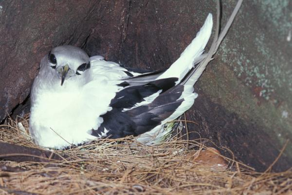 White-tailed Tropicbird (Phaethon lepturus) - Sitting at Sand Island, Midway Atoll, Hawaii